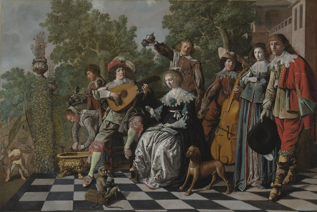 This image is available from the Netherlands Institute for Art Historyunder digital ID 199826. This tag does not indicate the copyright status of the attached work. A normal copyright tag is still required. See Commons:Licensing.